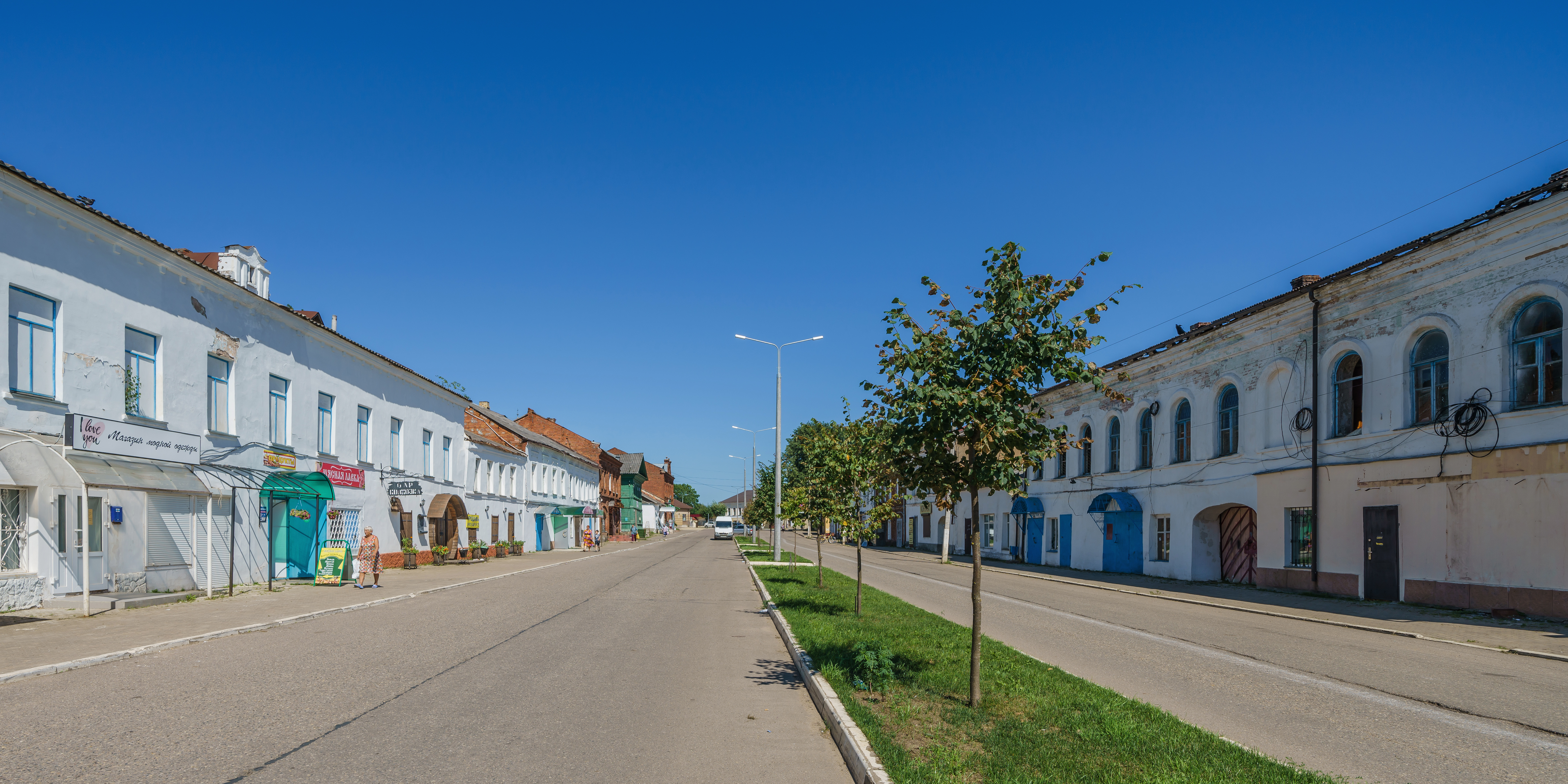 View of Narodnaya Street in Valdai, Novgorod Oblast, Russia